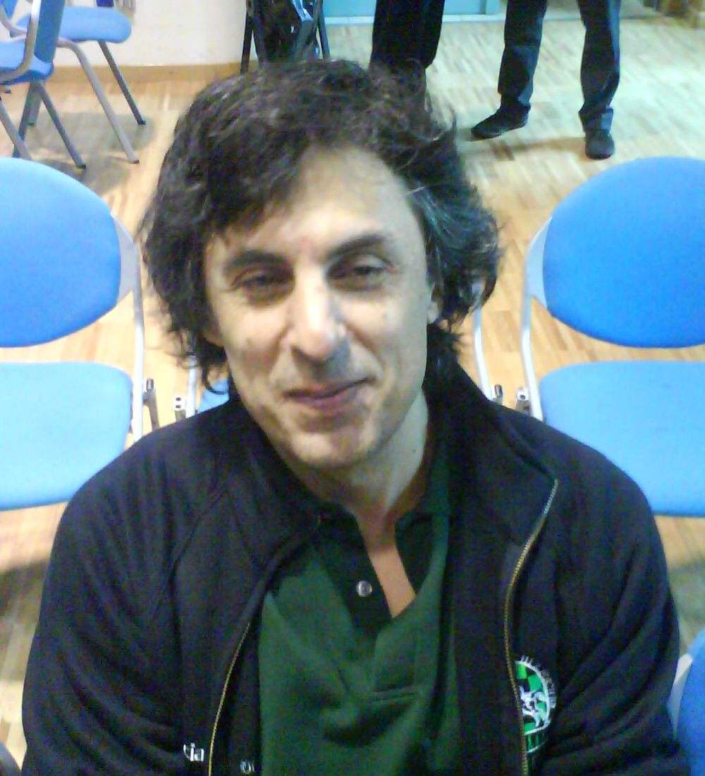 Carlos Garcia Palermo at the closing ceremony of the Italian Team Championship 2010